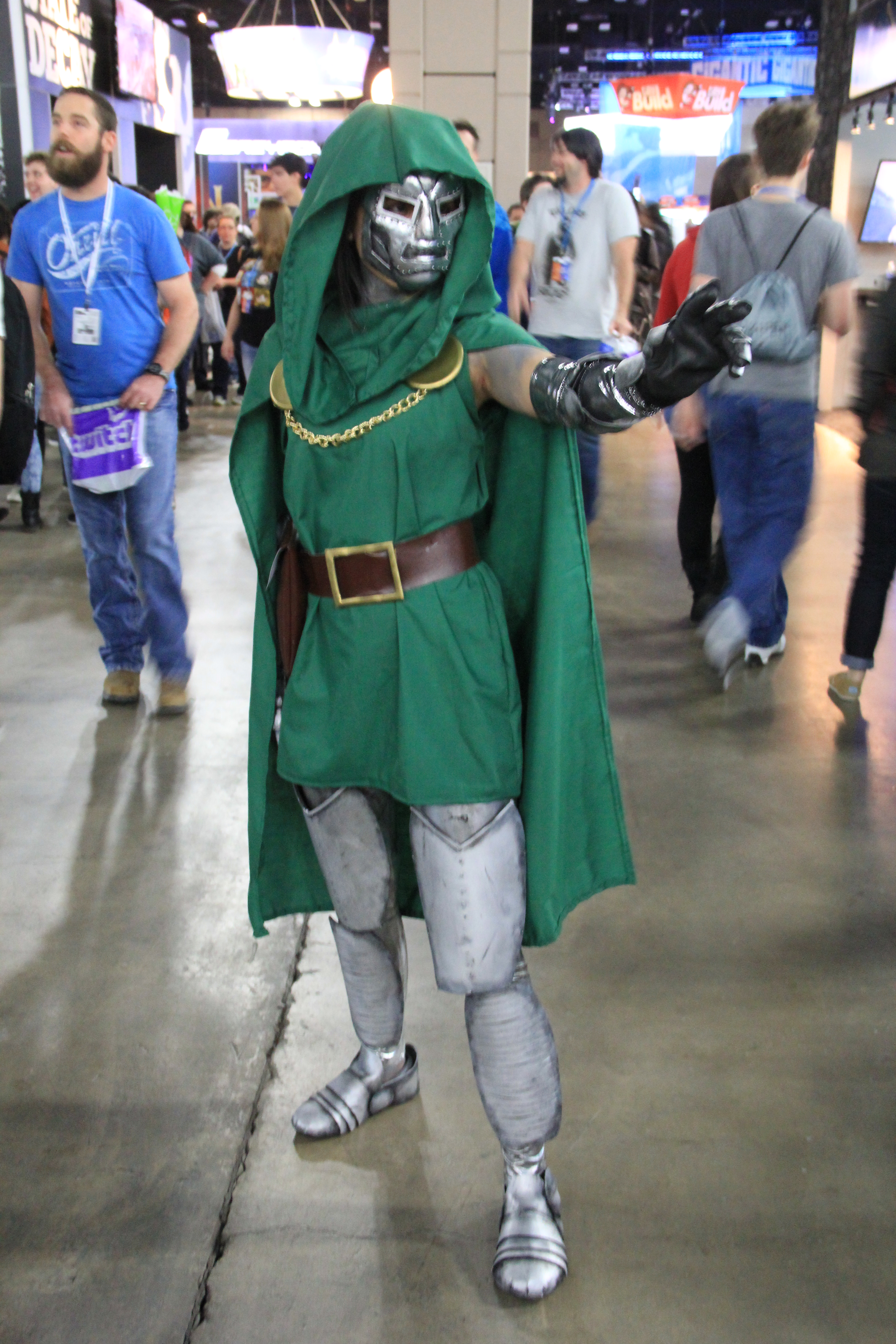 Doctor Doom Taken on day 2 or 3 of PAX South 2015.